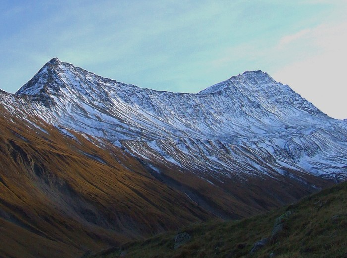 Pointe Lechaud seen from Val Veny Picture taken and edited by user Idefix october 9, 2006